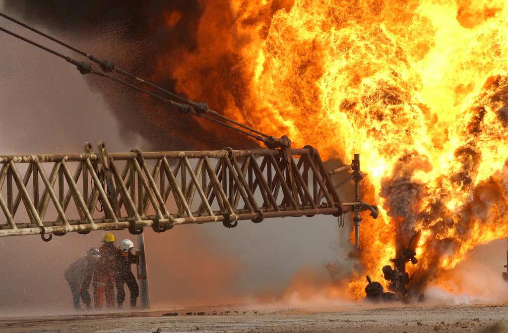 Kuwaiti firefighters attempt to extinguish an oil fire at the Rumaila Oilfield, Iraq as part of the coalition effort in Operation Iraqi Freedom on March 27, 2003.